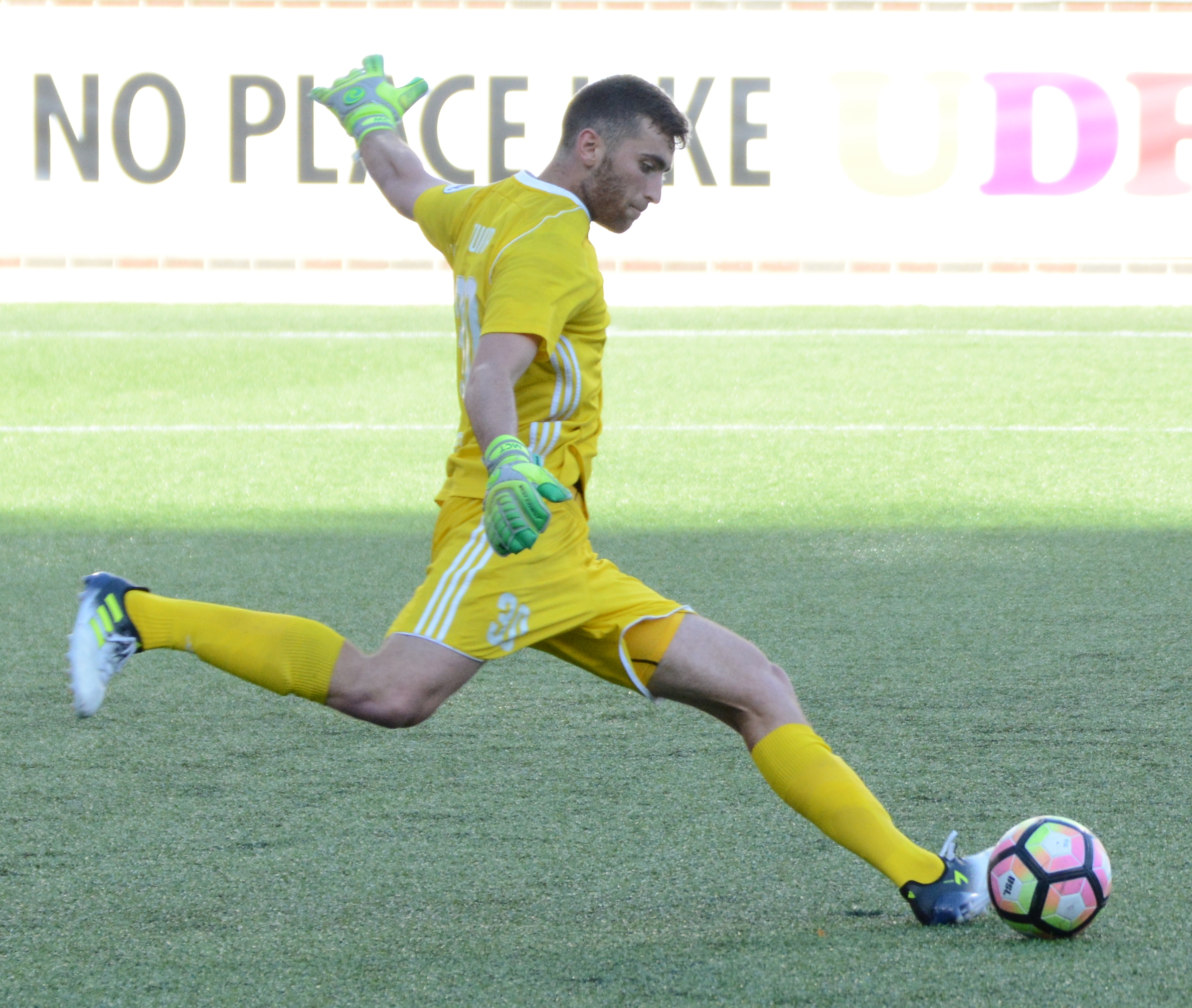 Taken during a USL regular season match between FC Cincinnati and Richmond Kickers at Nippert Stadium in Cincinnati, USA on July 9, 2017.